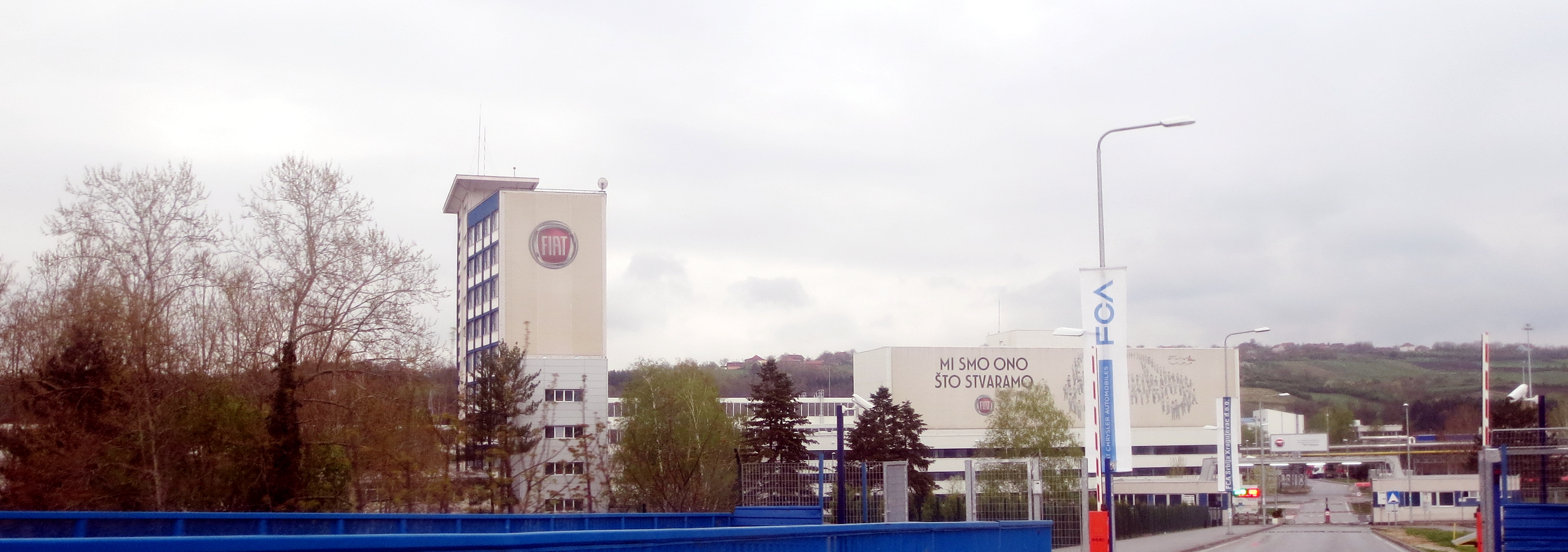 Image of the FIAT car factory in Kragujevac, central Serbia. This 1 bn EUR investment in 2012, was among the biggest ever in the country. The car factory is based on the previous Jugo/Zastava experience.